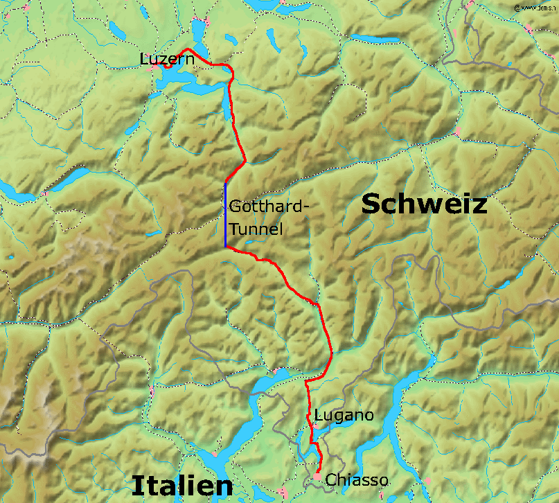 Map of the Gotthard railway.